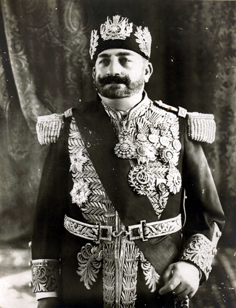 Moncef Bey from Tunisia